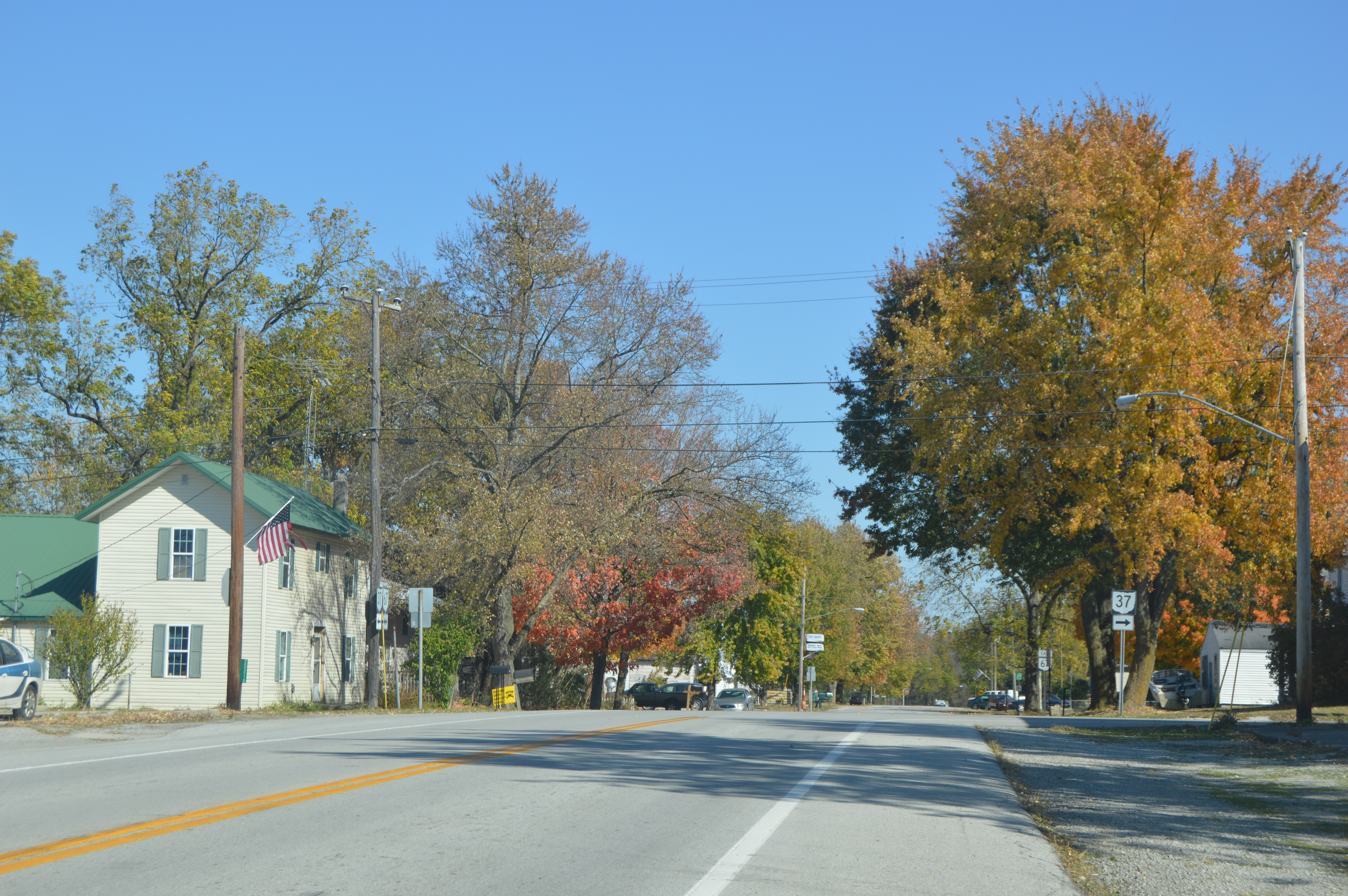 Looking eastward on Main Street (Ohio State Route 67) toward the Center Street (State Route 37) intersection in Marseilles, Ohio, United States.